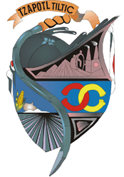 Shield of arms